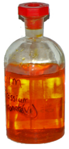 Potassium dichromate bottle